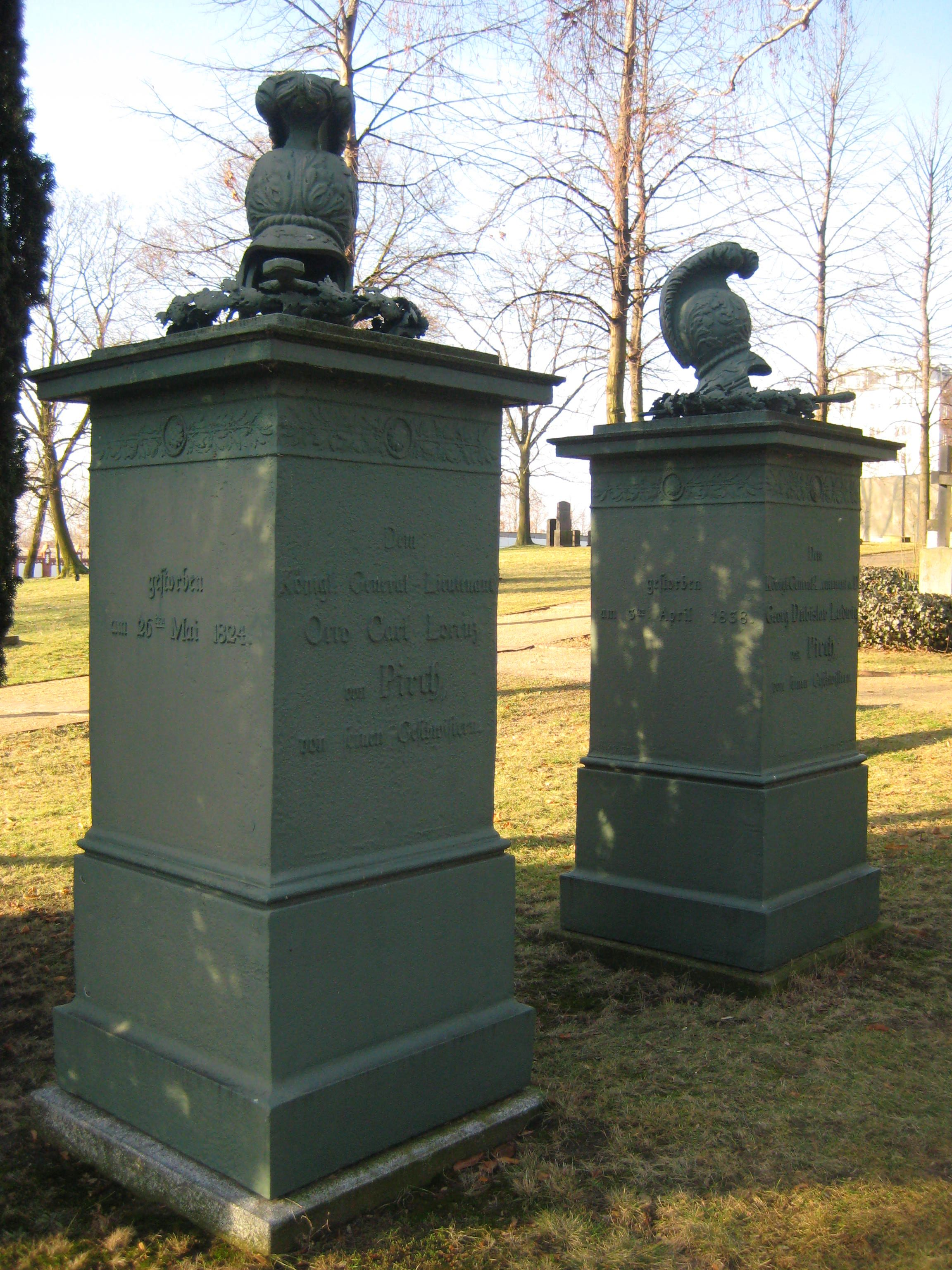 grave monuments for Otto Carl Lorenz von Pirch (d. 1824) and Georg Dubislaw Ludwig von Pirch (d. 1838) on Invalidenfriedhof cemetery in Berlin, designed by Karl Friedrich Schinkel